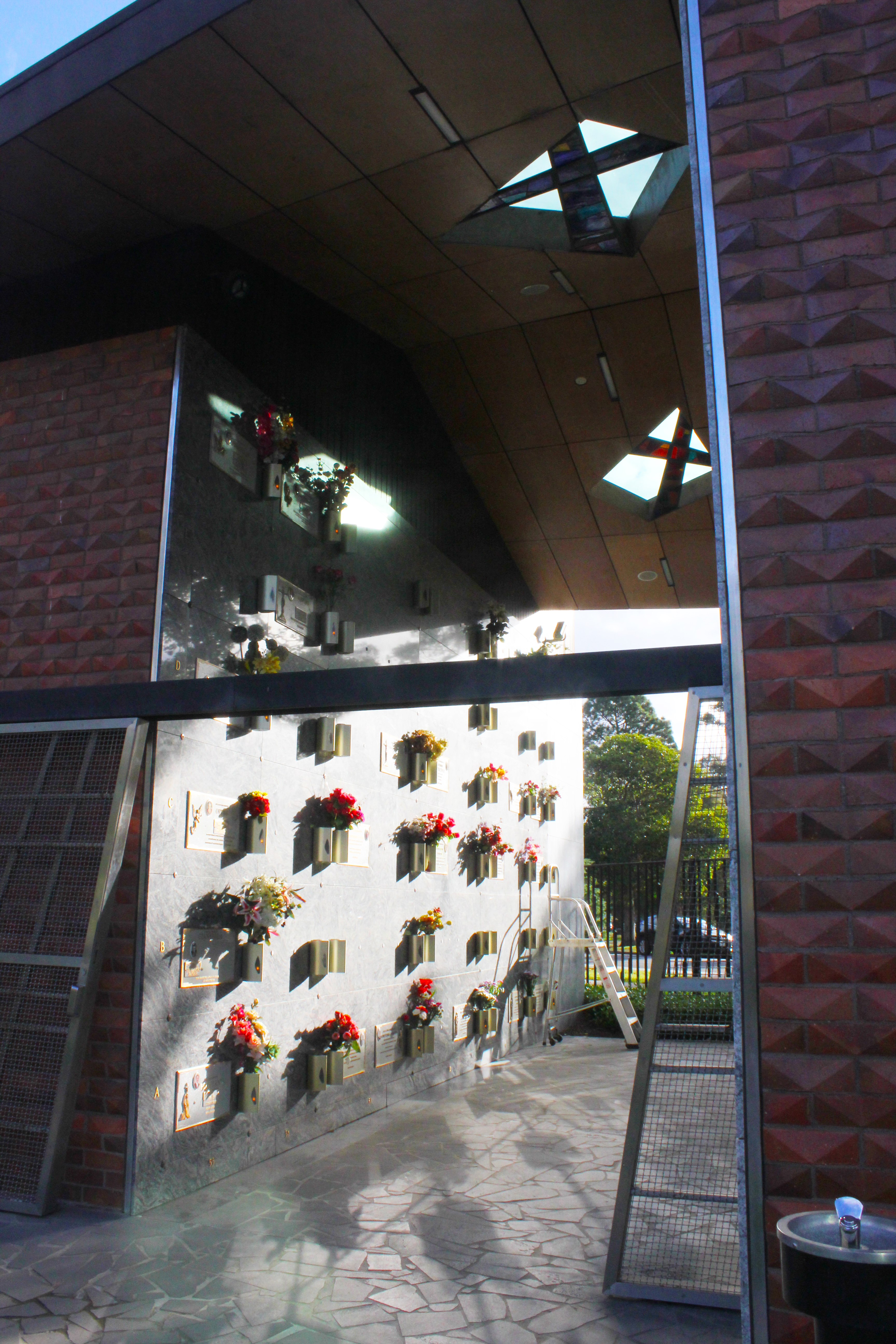 Flowers covering the individual crypts inside the Mausoleum